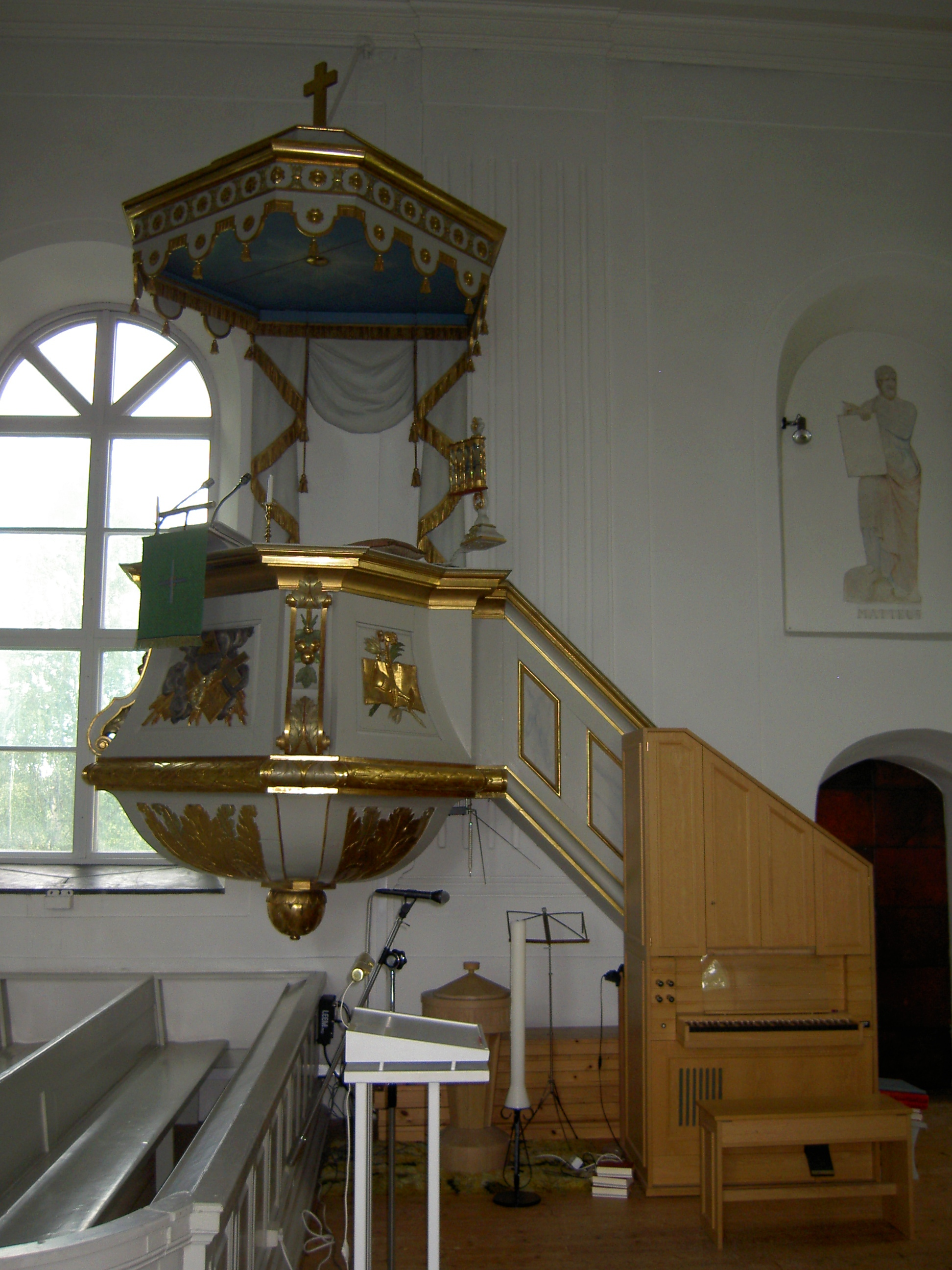 Pulpit